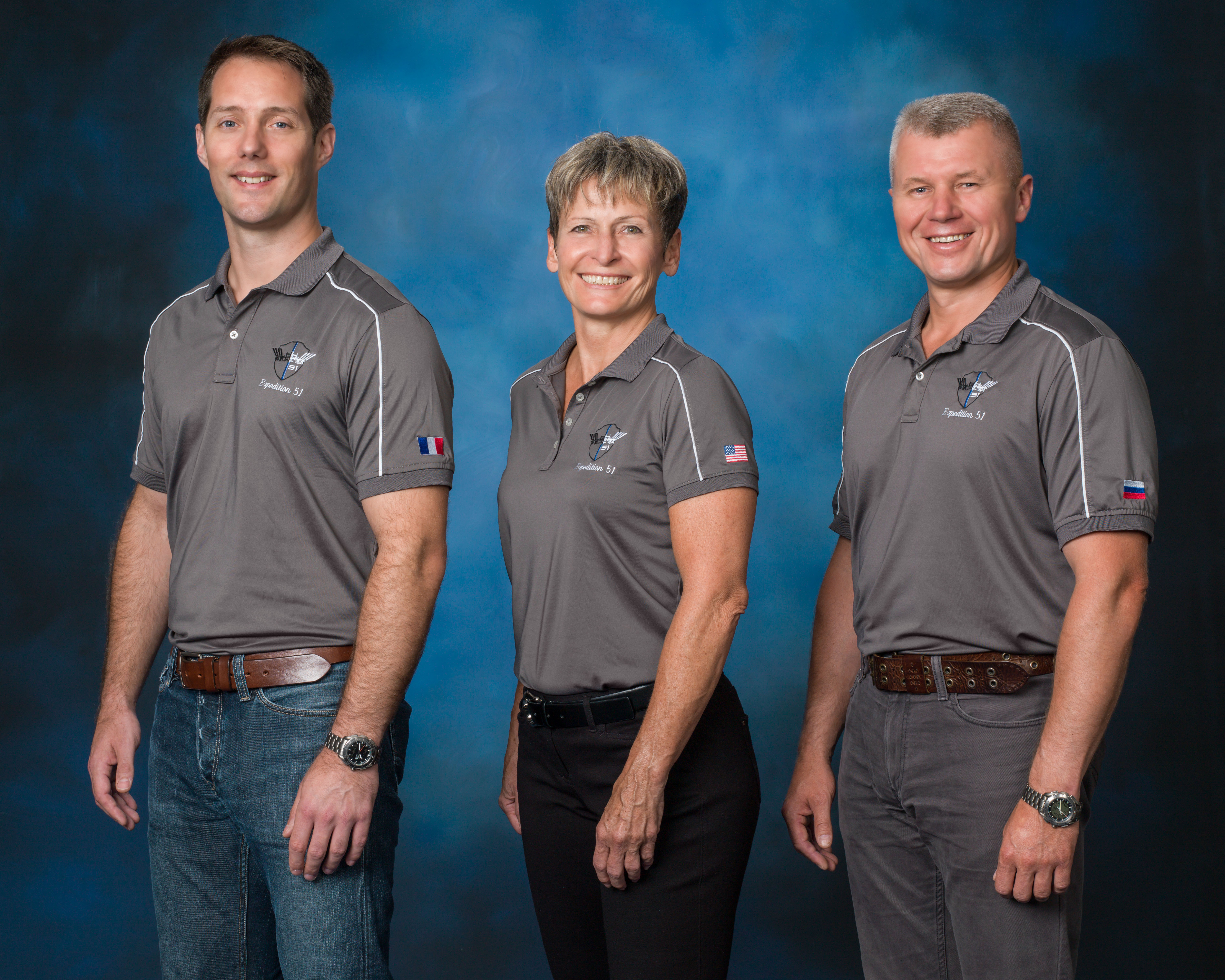 Official Expedition 51 crew portrait with 49S crew: Peggy Whitson, Thomas Pesquet, Oleg Novitsky and 50S crew: Mark Vande Hei, Nikolai Tikhonov, Aleksandr Misurkin.